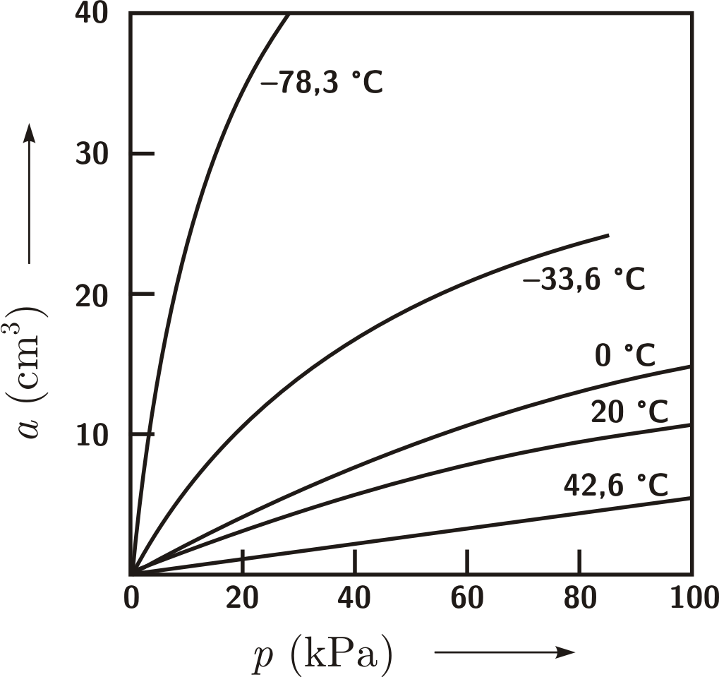 Freundlich isotherm, adsorption, CO/carbon